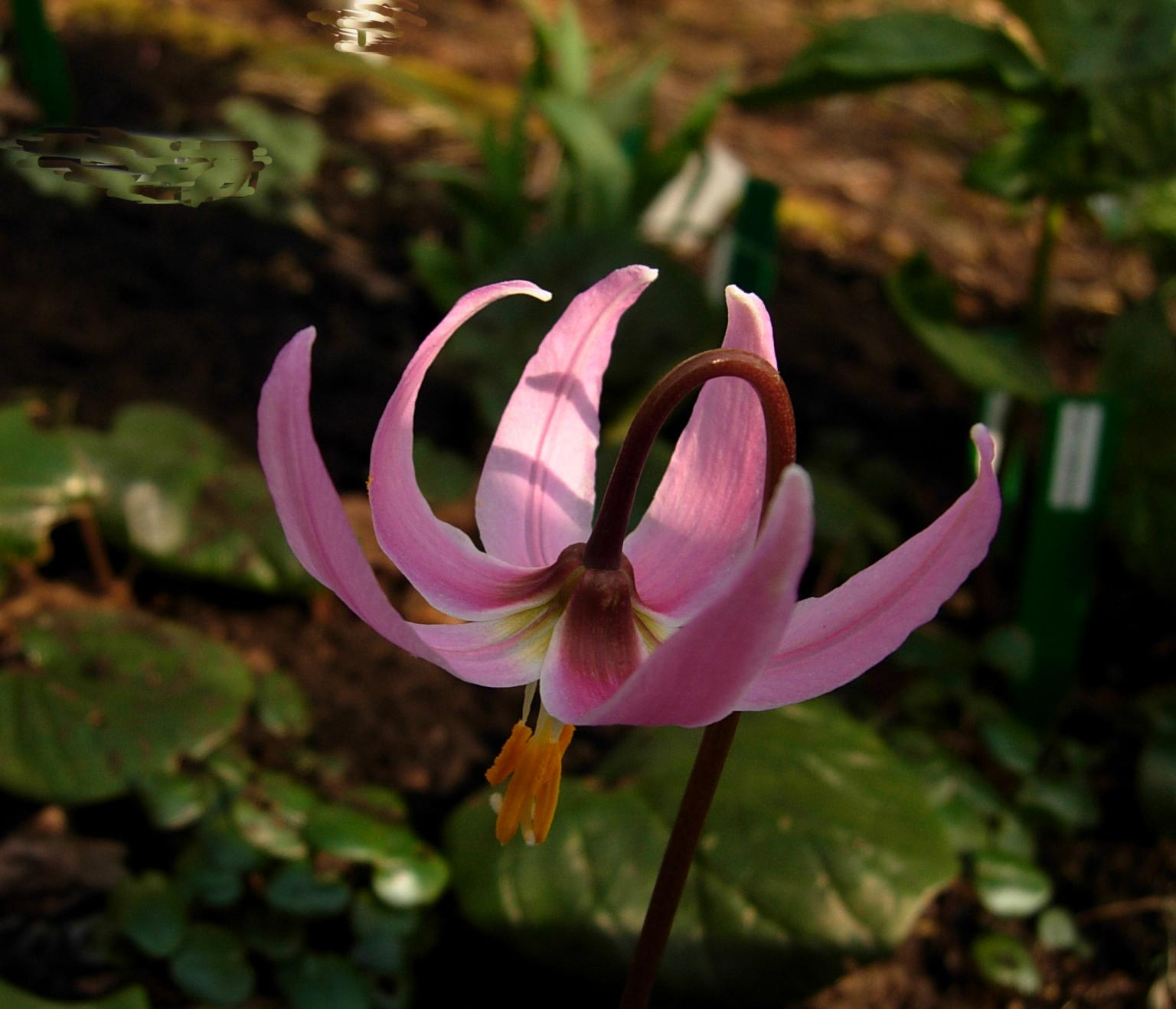 Erythronium revolutum — Coast fawn lily.